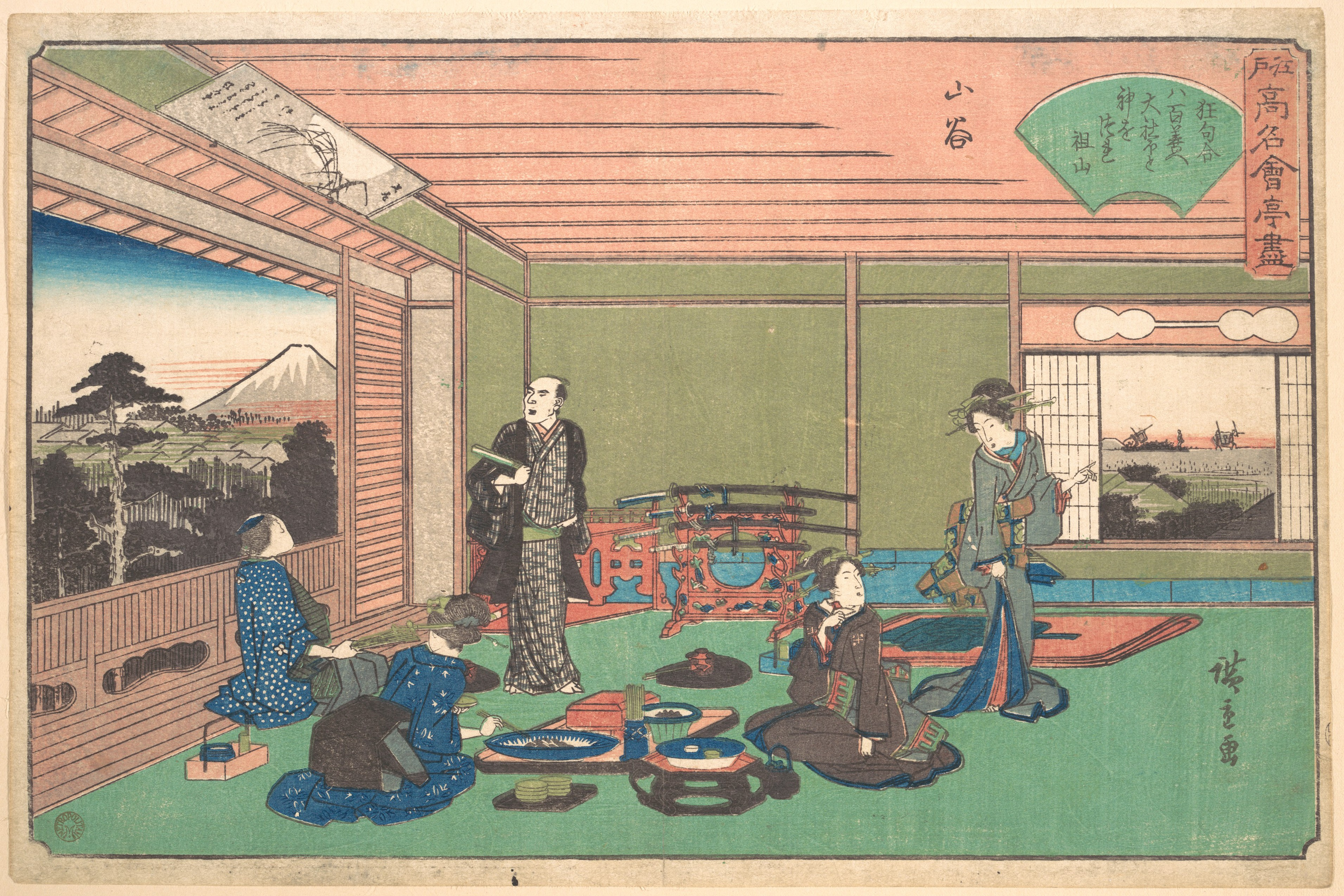 Japan; Woodblock print; Prints